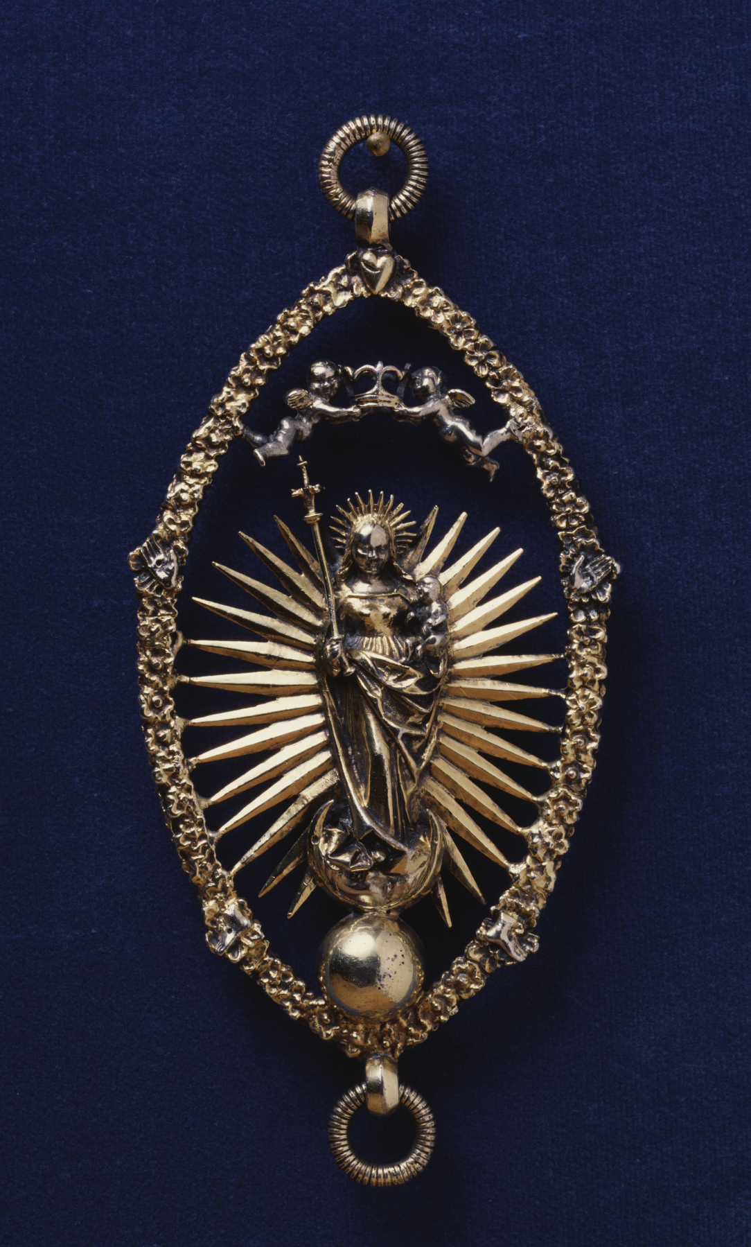 The depiction of the Virgin and Child in Glory within an aureole (large almond-shaped halo) of roses evoked for contemporaries both a well-known image from the book of Revelation interpreted as the Virgin's triumph over evil and the rosary. The ring at the top is for a chain, while that at the bottom is for a pendant pearl.